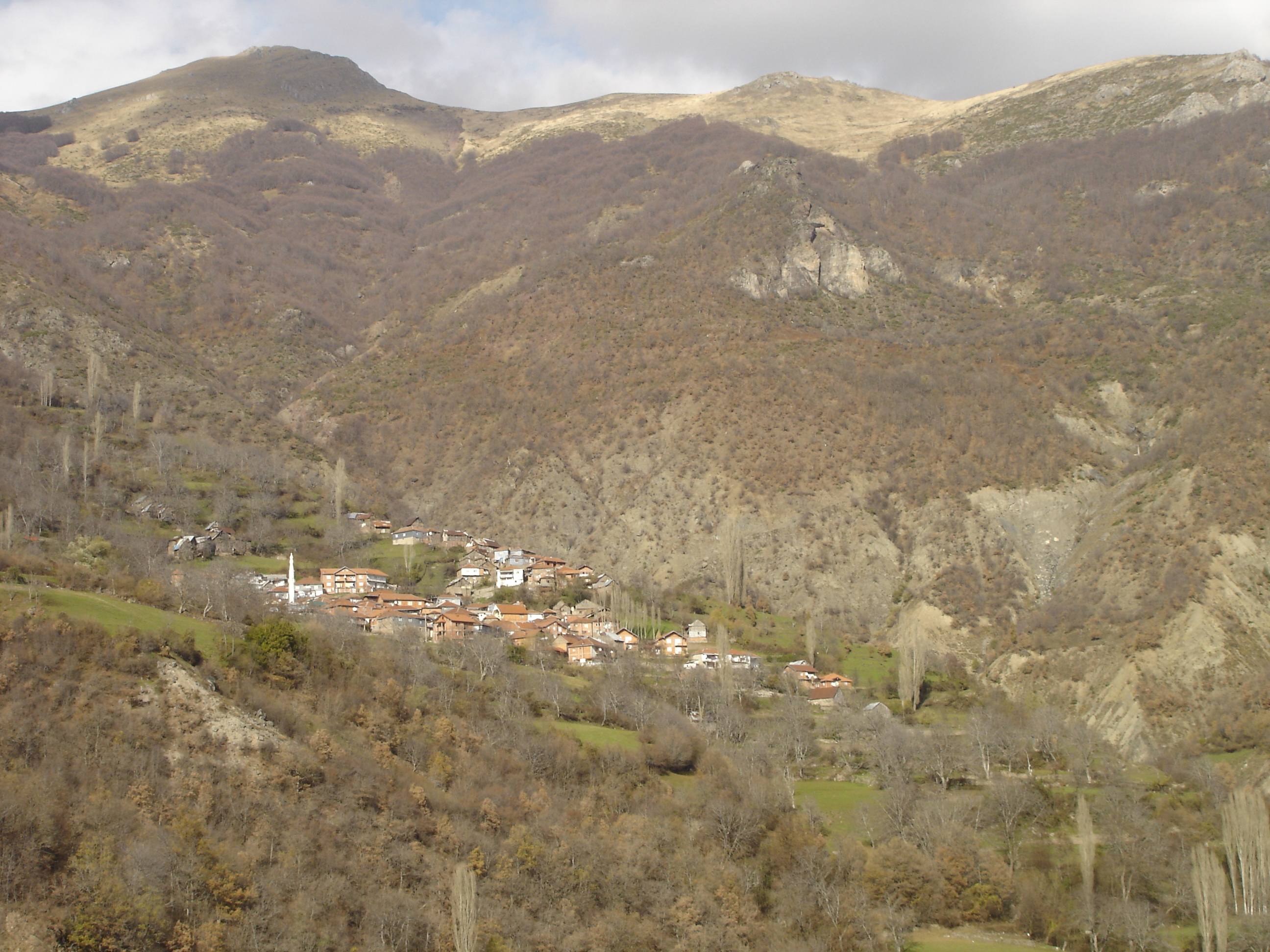 View of the village of Gorno Kosovrasti (Debar region) on the mountain Deshat, Macedonia